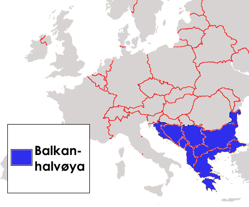 Map of the Balkan peninsula, with norwegian text